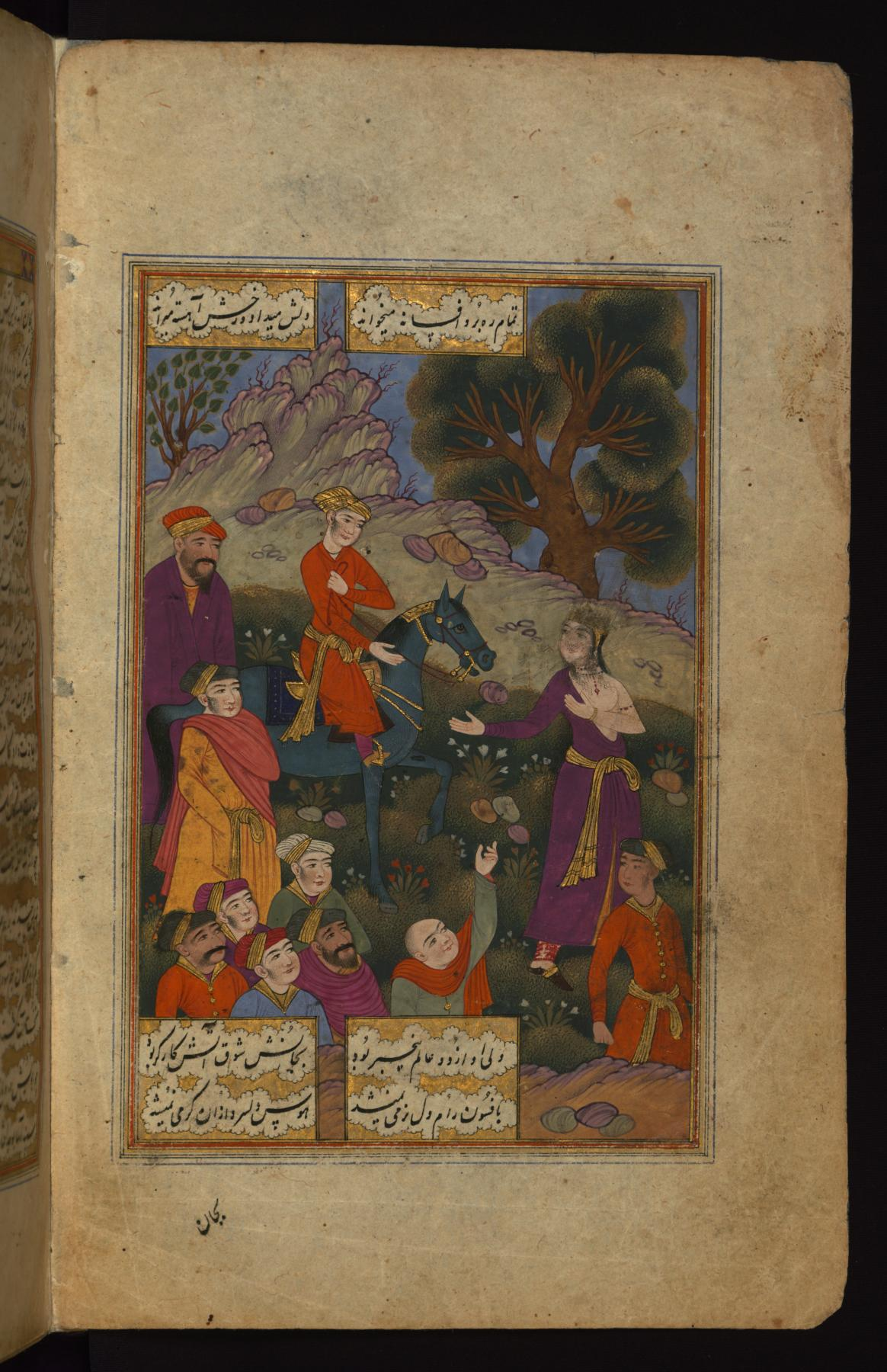 In this folio from Walters manuscript W.649, Emperor Akbar eventually permits the young Hindu girl to practice sati (self-immolation). Akbar's son, Prince Daniyal, accompanies the woman to the funeral pyre. The painting was part of a series created to illustrate a poem written by Naw'i Khabushani (d. 1019 AH/AD 1610) about a girl betrothed, but whose to-be-husband dies before the marriage. The painting was produced in Iran, by Muhammad 'Ali Mashhadi in 1068 AH/AD 1657. According to the colophon, Ibn Sayyid Murad al-Husayni copied the manuscript for the painter Muhammad 'Ali, the "Mani of the time," as a "souvenir." The fact that the manuscript was produced for one of the most prolific artists of 17th-century Iran makes it a highly significant document. Source and folio description from Walters Art Museum.